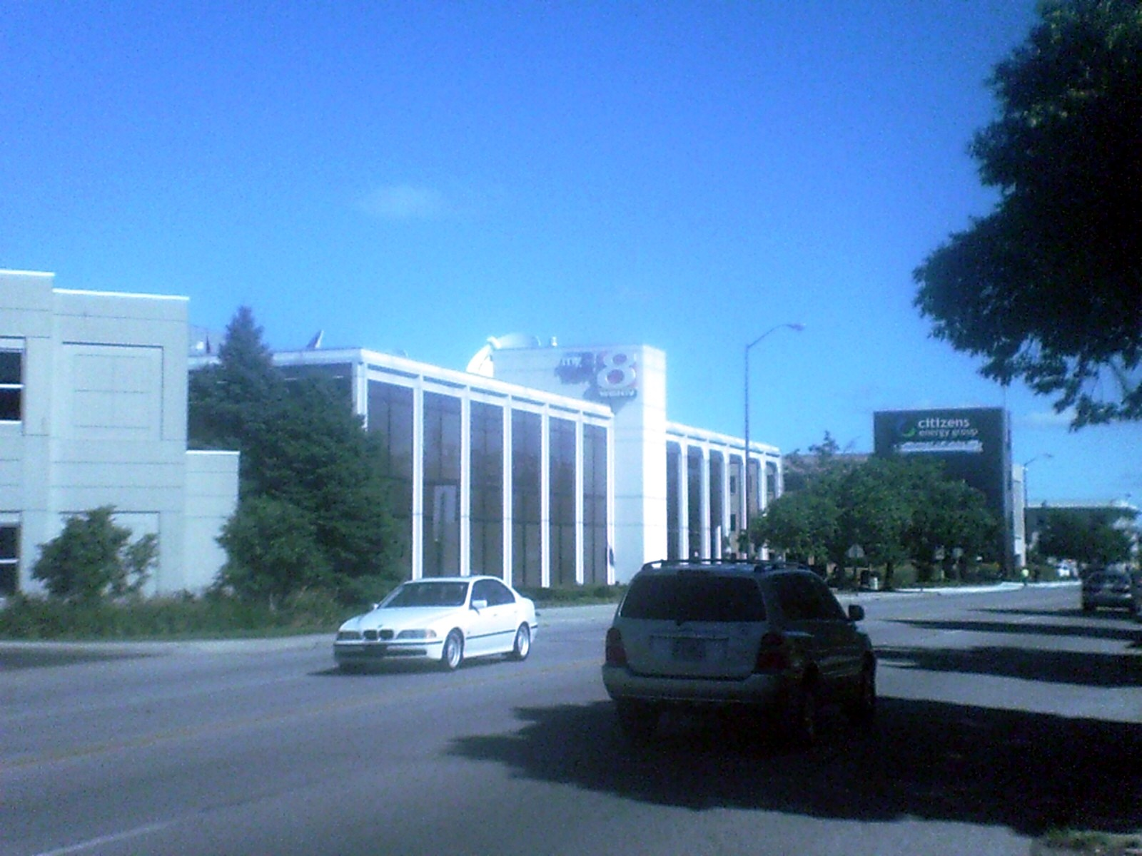 Main offices and studios of Indianapolis CBS affiliate WISH-TV, located at the intersection of 20th and Meridian Streets in Indianapolis.